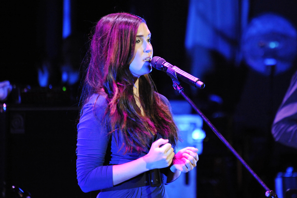 Kristina Train performing in Herbie Hancock's Imagine Project on stage in Warszawa, Poland on November 29, 2010.